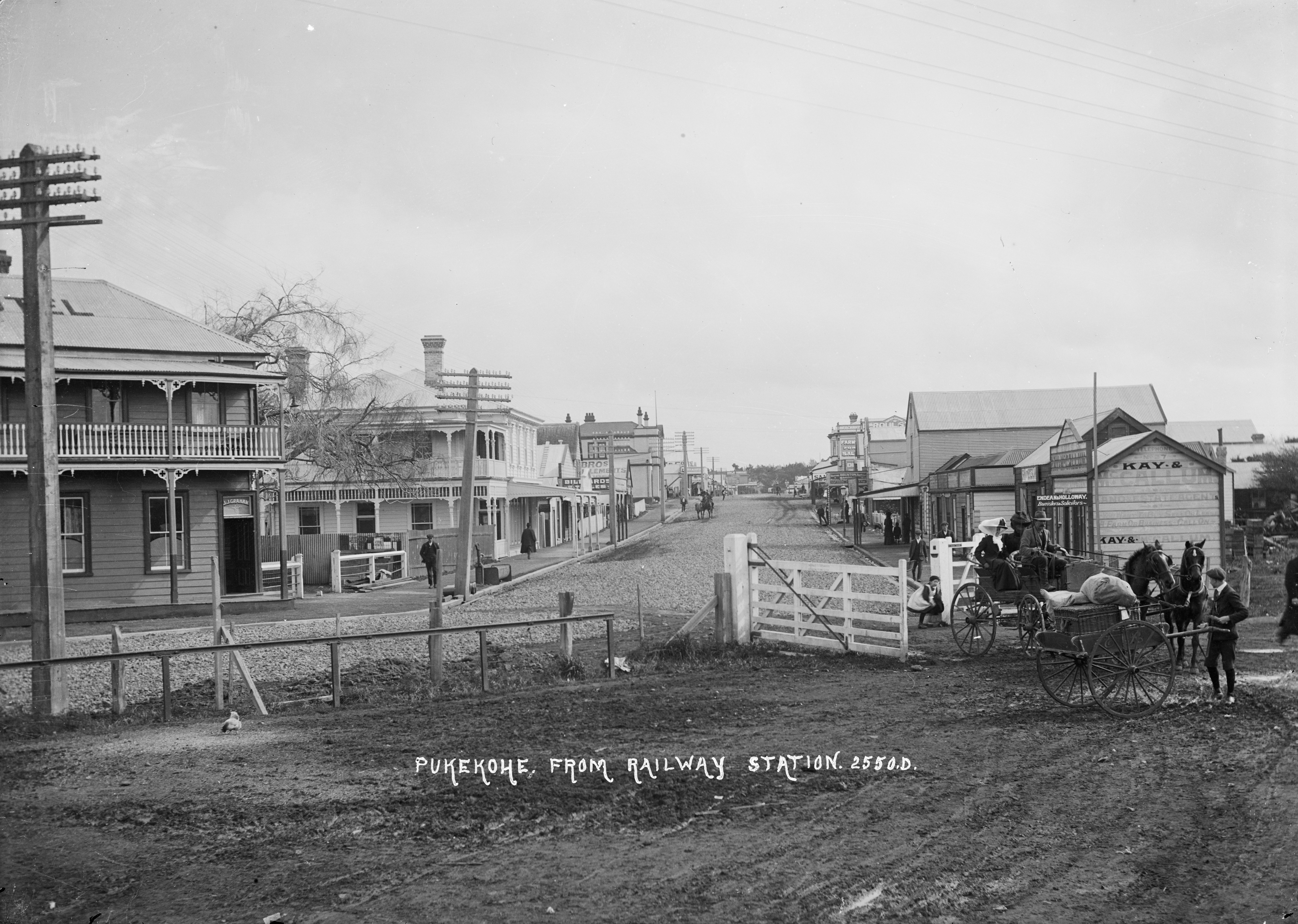 View looking up the street from the railway station with the Pukekohe Hotel on the left opposite the gate leading to the station. The premises of Endean & Holloway, barristers and solicitors, are on the right near the gate. A horse and buggy are entering the yard and a boy with a handcart is nearby.